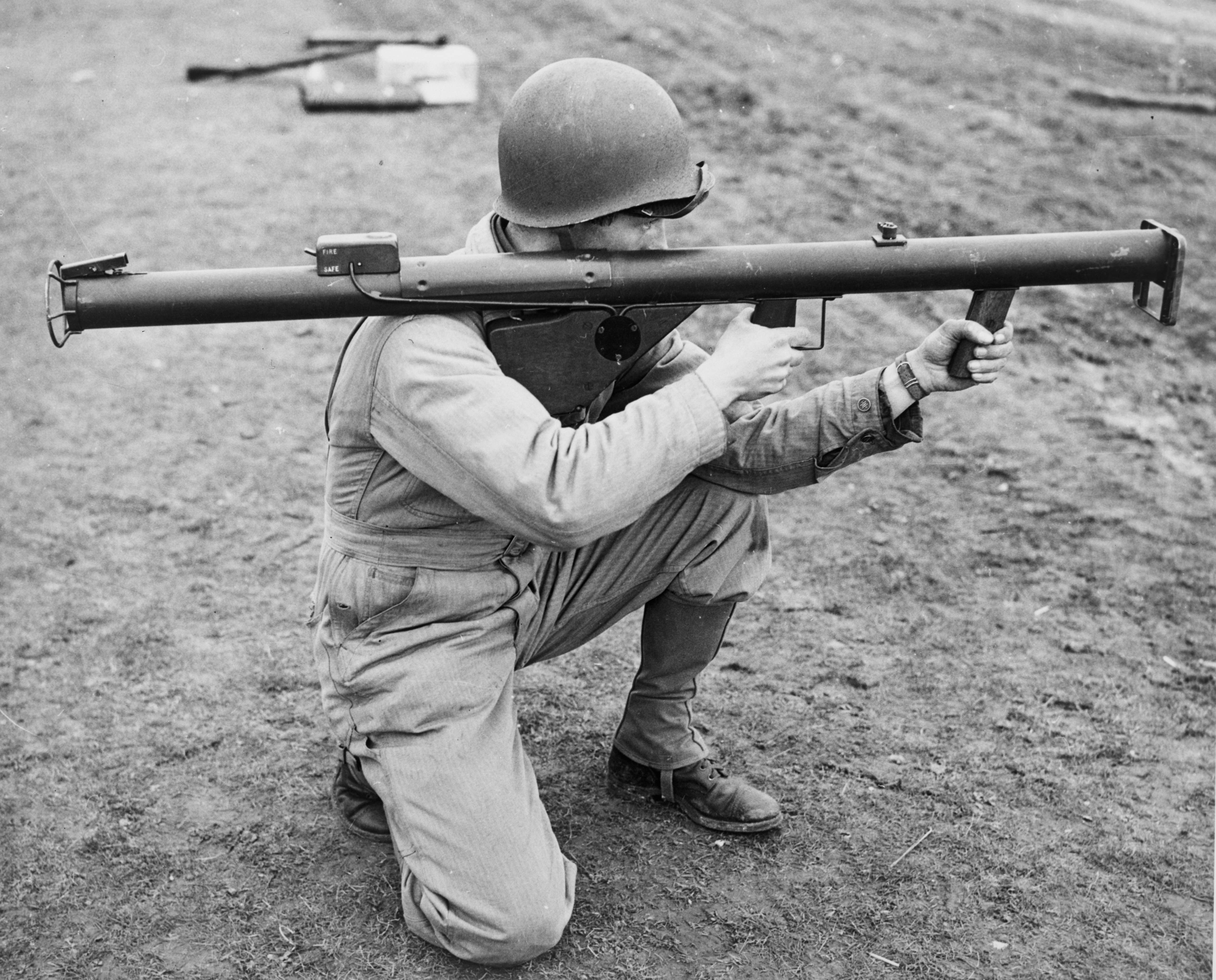 Soldier holding an M1 "Bazooka".